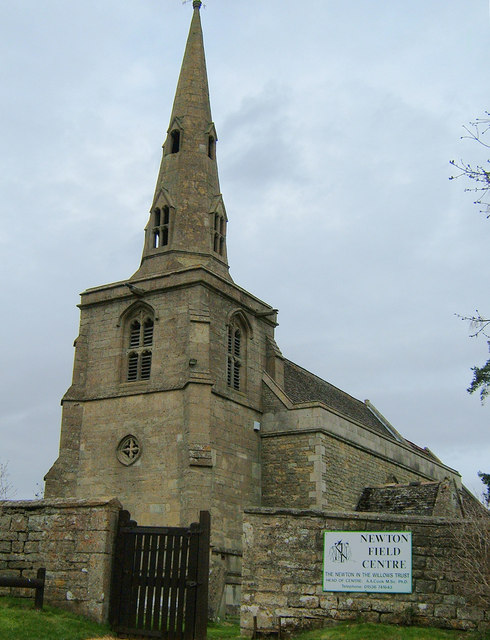 Newton Field Centre, Northamptonshire, formerly St Faith's parish church